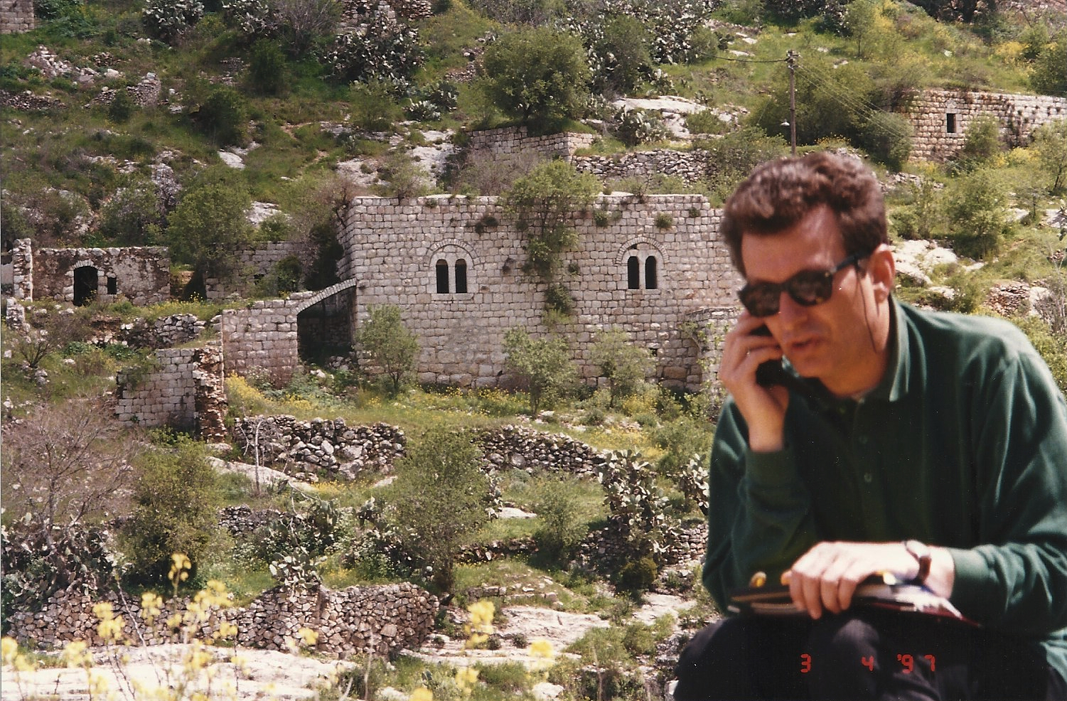 Benny Brunner during production of Al Nakba in the depopulated Palestinian village of Lifta; now part of Jerusalem.